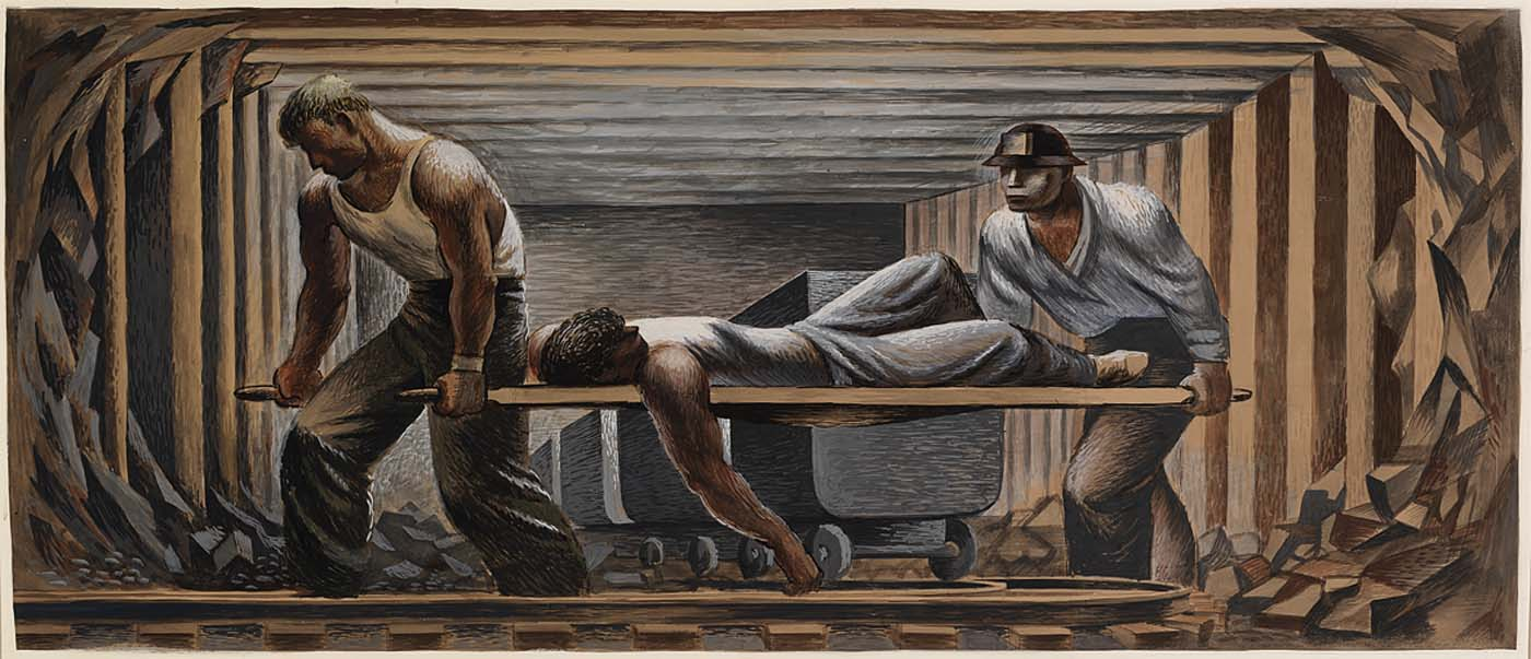 Mural study for Mine Rescue (1939), by Fletcher Martin, Smithsonian Museum of American Art, Washington, D.C.Created under the Treasury Section of Fine Arts for the Kellogg, Idaho Post Office.Transferred from the General Services Administration to the Smithsonian American Art Museum, 1974. More information: Post Office Mural, Kellogg ID at The Living New Deal